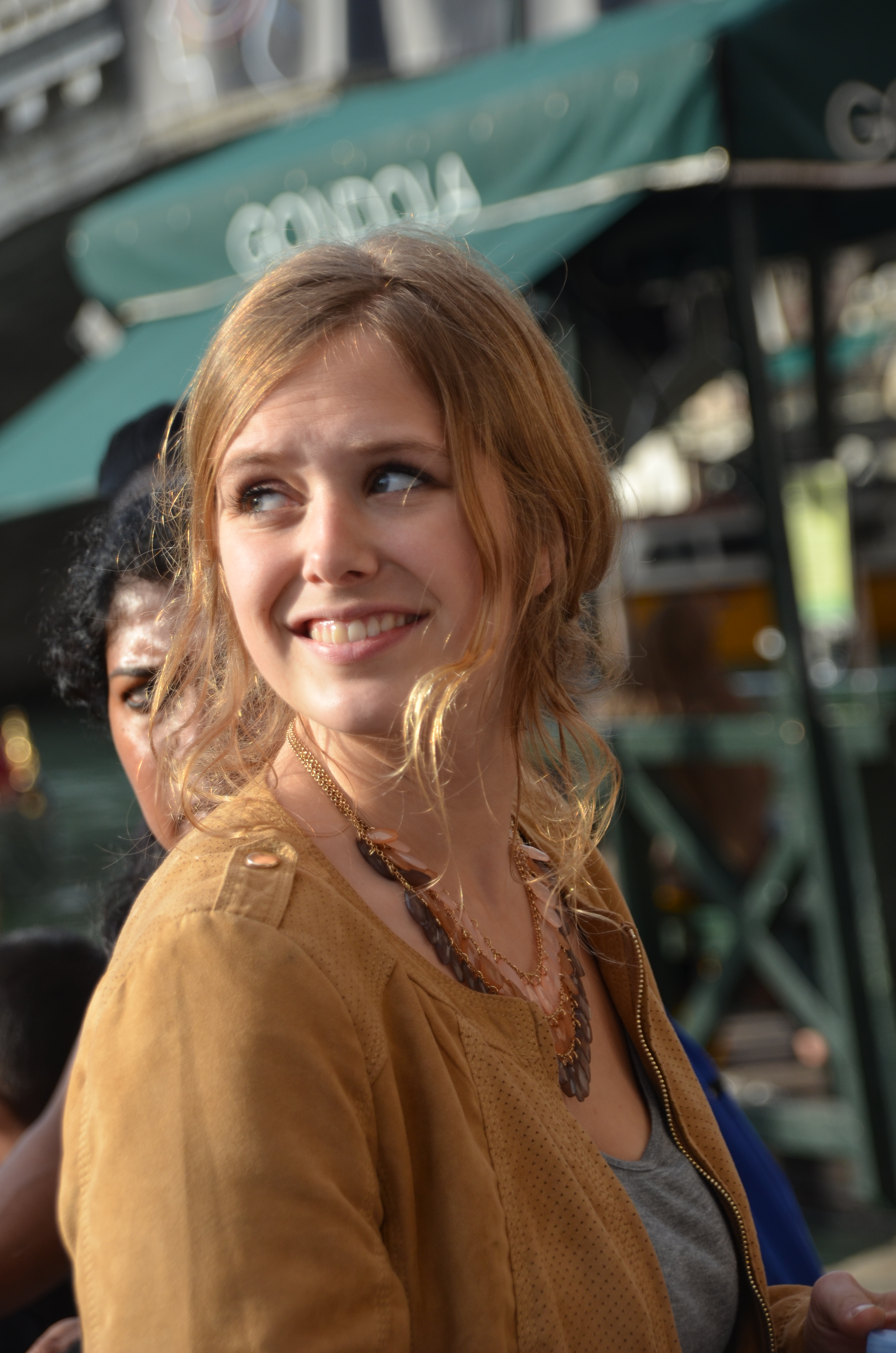 Maaike Ouboter